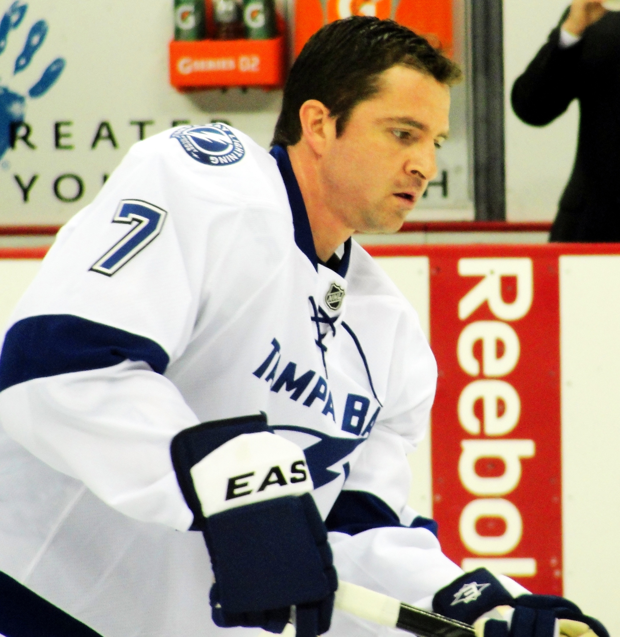 Brett Clark of the Tampa Bay Lightning during a February 12, 2012 game against the Pittsburgh Penguins at Consol Energy Center in Pittsburgh, PA.